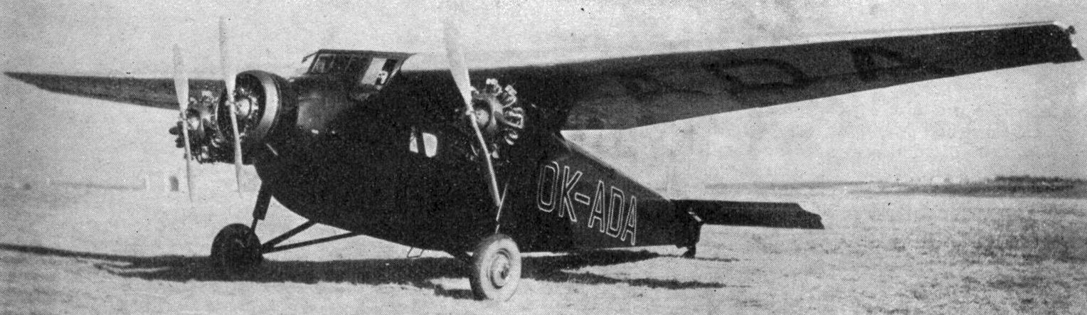 Letov Š-32 photo from L'Aerophile January 1932